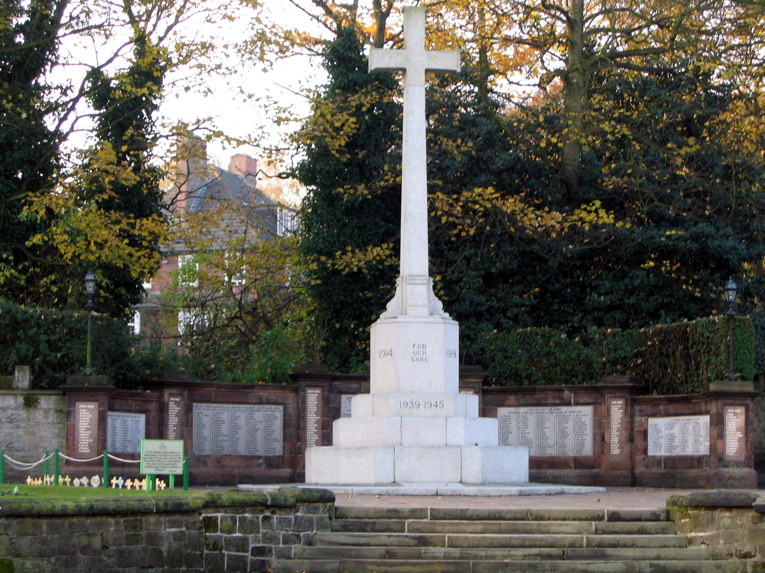 Photograph of the war memorial in Runcorn, Cheshire, England